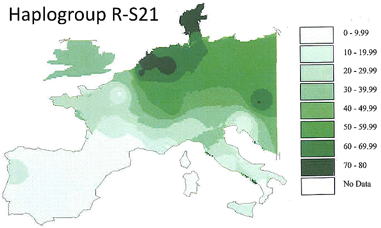 Isofrequency map of haplogroup R-S21 (R1b1a1a2a1a1) in West-Europe. Isofrequency lines indicate the artificial limits (of the areas with various nuances of green) between the decreasing S21 values from the peak. The most elevated value of sub-haplogroup R-S21 frequencies (79%) corresponds to The Netherlands. R-S21 frequencies are 77% in Germany, 74% in Denmark, 73% in Belgium, 70% in Austria and 60% in Switzerland. In the Czech Republic R-S21 frequency is 53%. Maximal values of R-S21 for France is Nancy (58%) and for Italy is Torino (26%). Great Britain had an intermediate value. We can see on the map a gradient of decreasing S21 frequencies from the focus towards south-west in France and to south-eastern Italy; there is an other relatively important focus on S21 frequencies in Czechs.